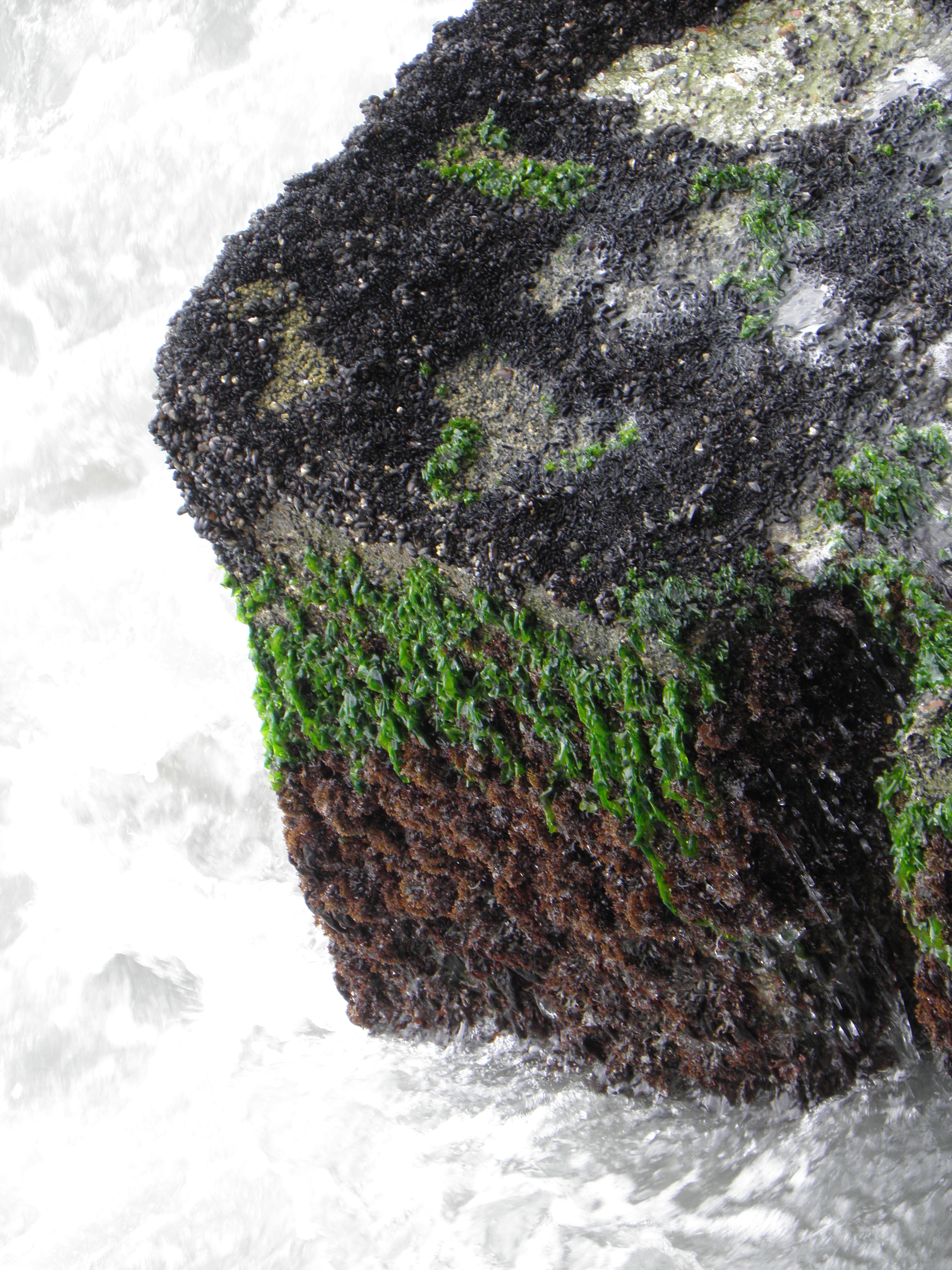 South Atlantic mussel (Mytilus edulis platensis), on the coast of the city of Mar del Plata, in the central-eastern Argentina.